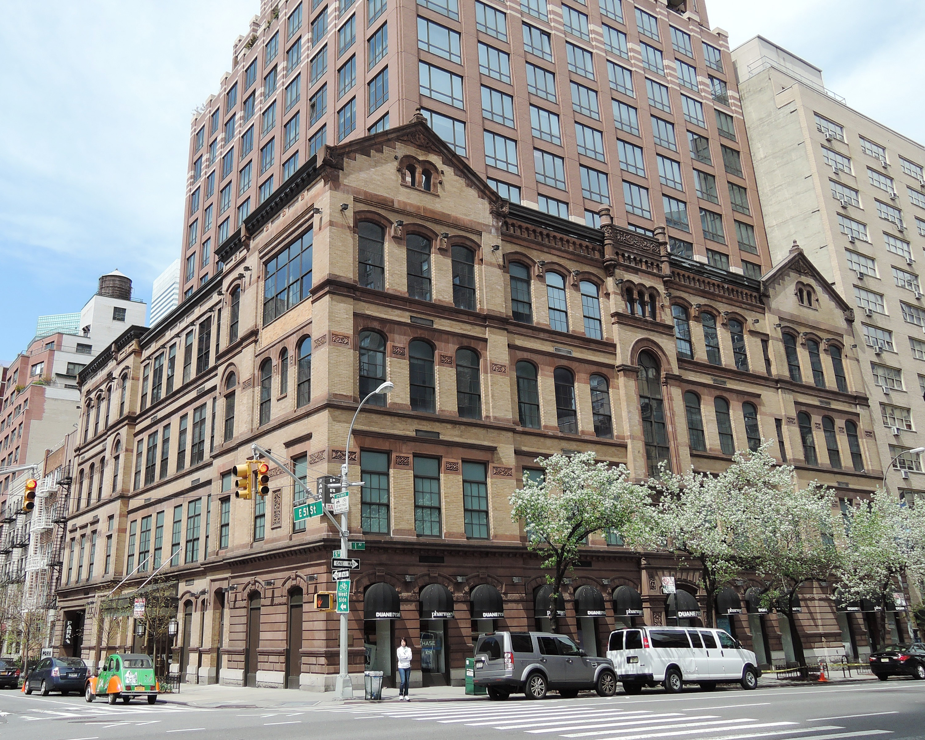 Looking northwest at former PS 35 on a partly sunny midday.